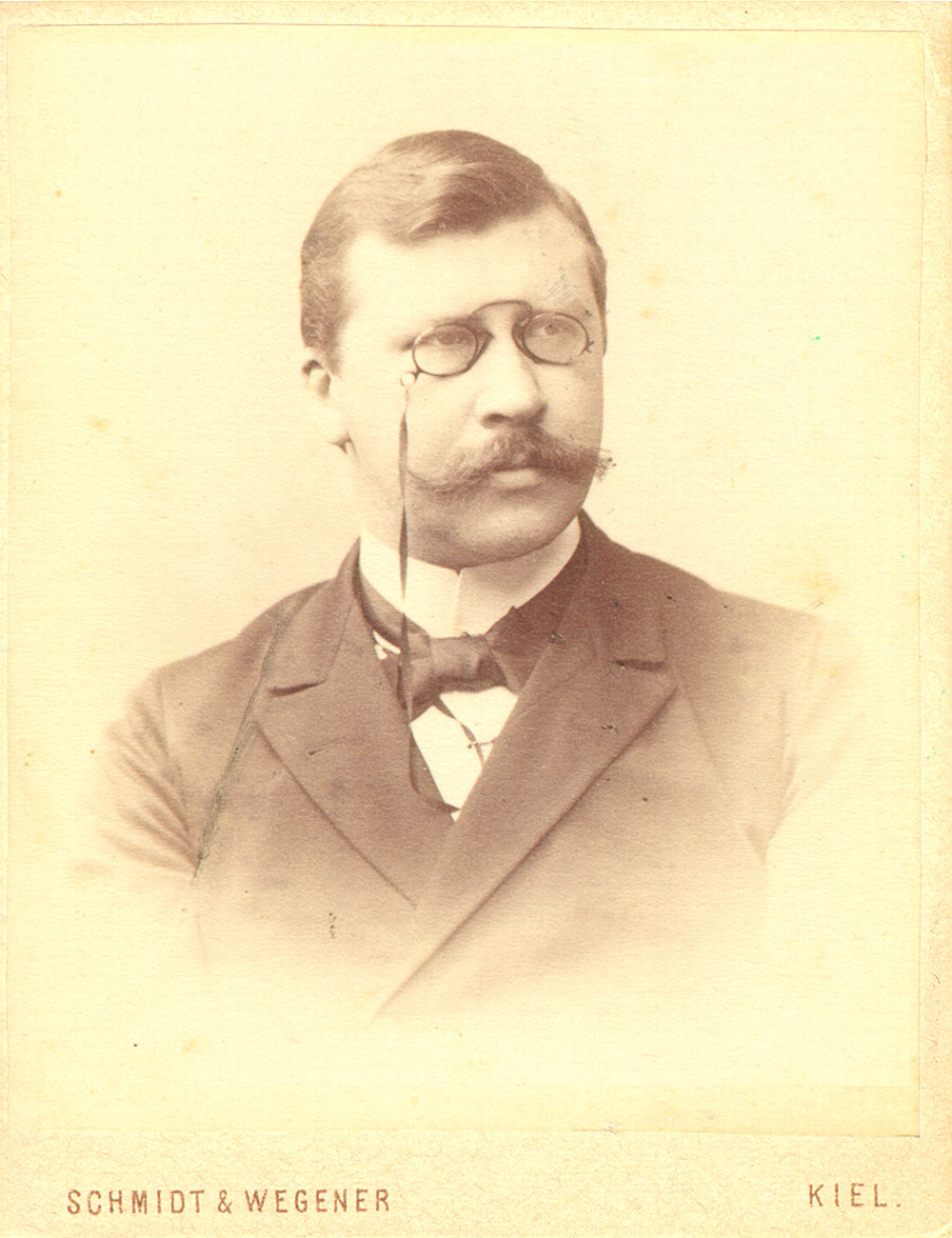 Julius Carl Schirren